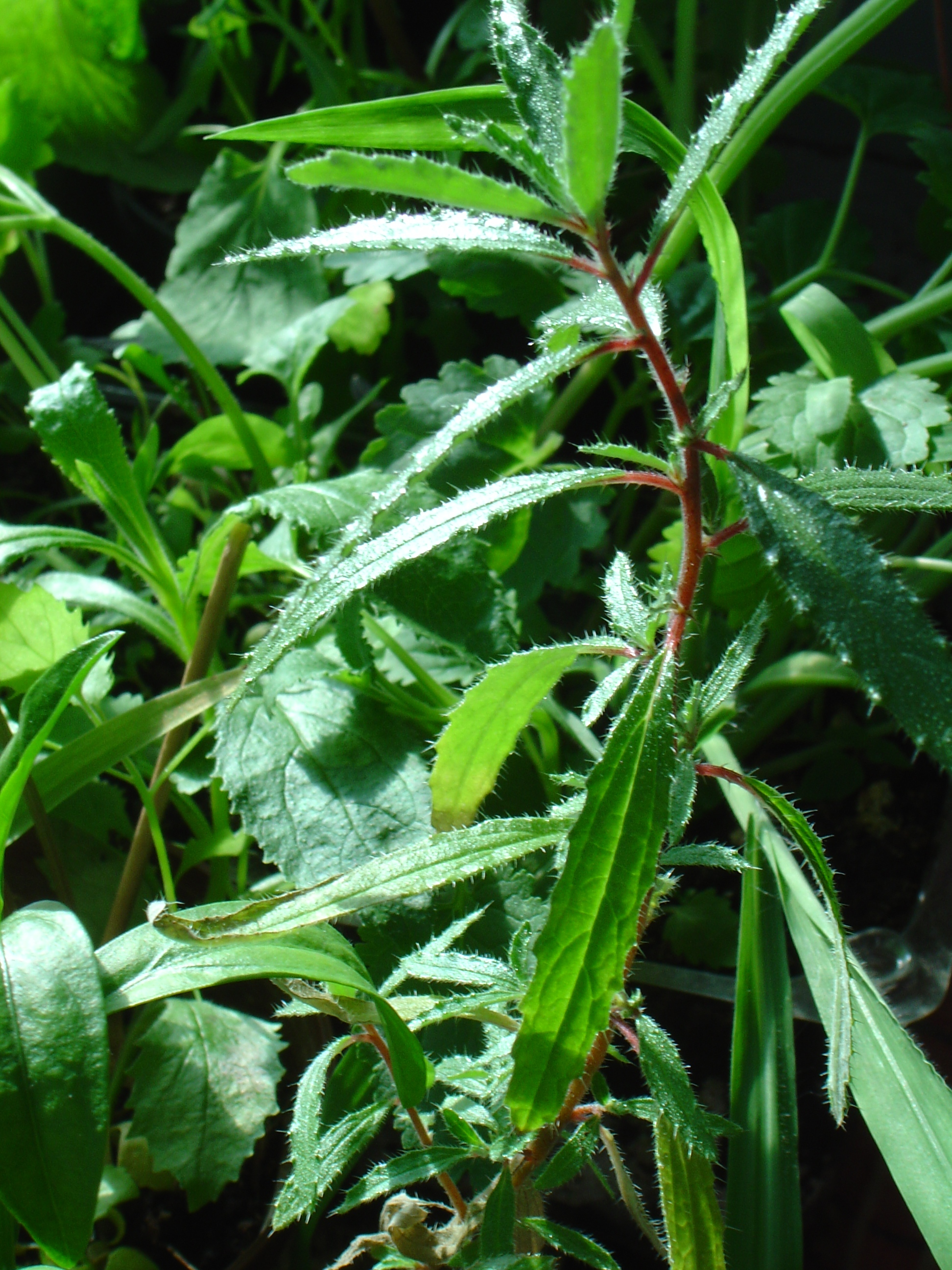 Forrskahlea angustifolia.